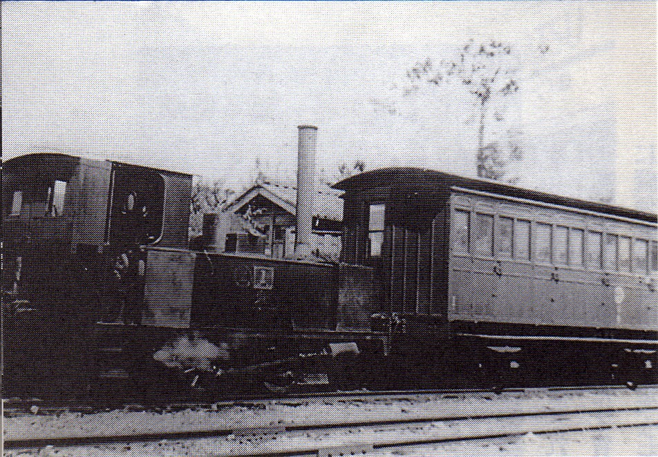 Sasayama Railway Sasayamacho station, current Sasayama city Hyogo prefecture Japan